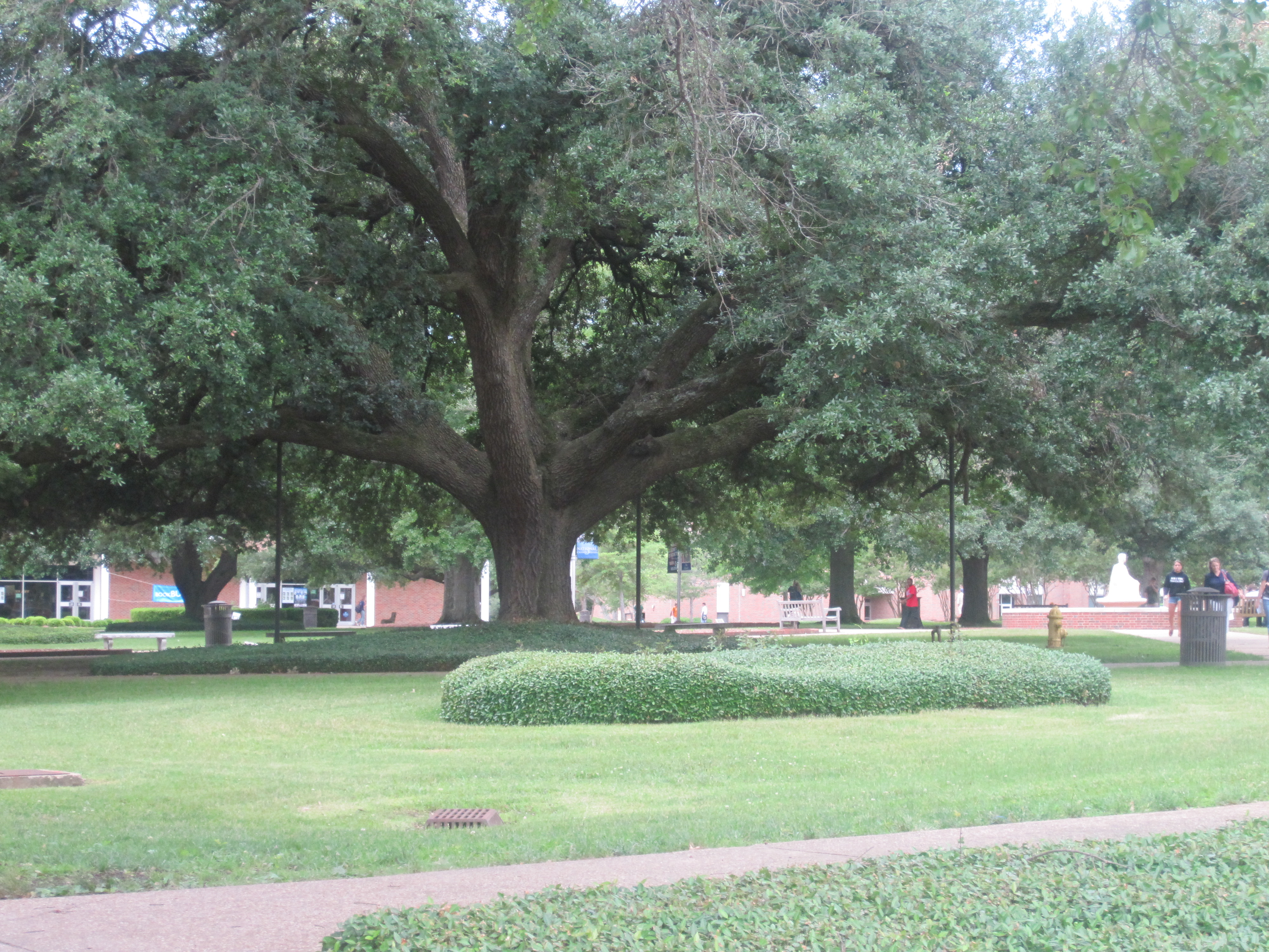 I took photo with Canon camera.